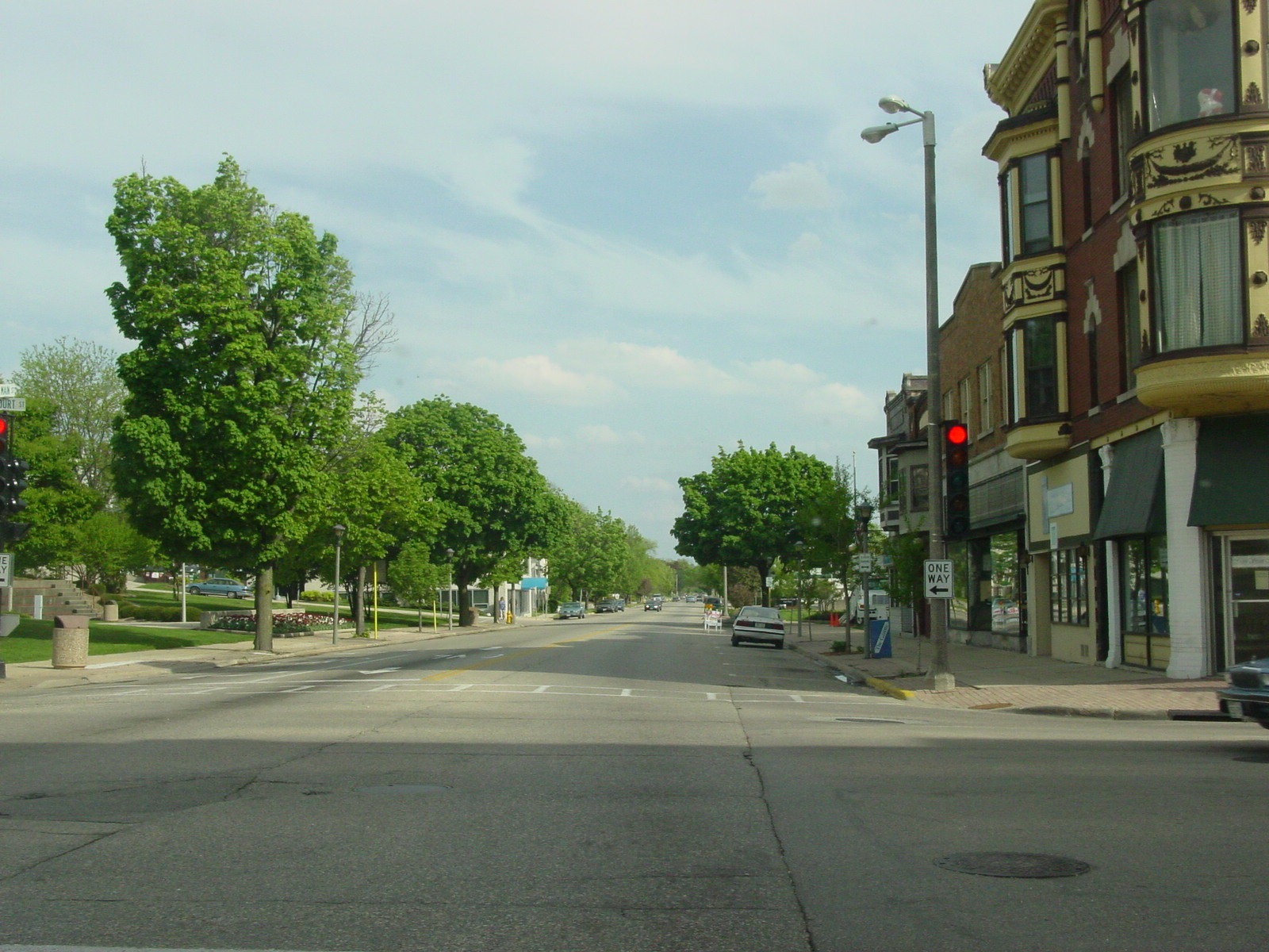 Downtown Janesville looking south on Main Street (2004)